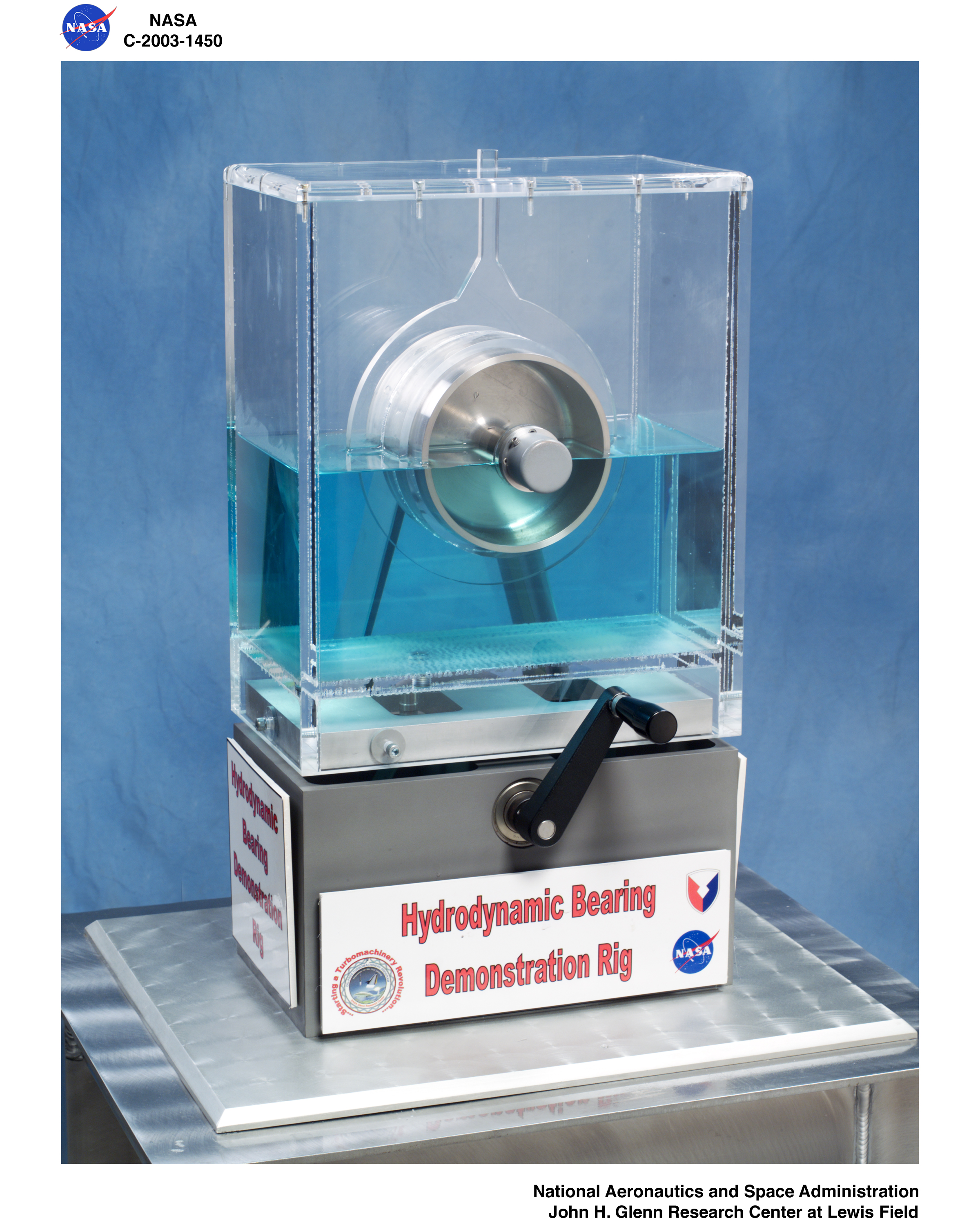 Hydrodynamic Bearing Demonstration Rig. This demonstration consists of a hand-cranked see-through acrylic bearing with water flow representing air. As the journal rotates, a fluid film is formed between the sliding surfaces. The faster the journal rotates, the more load can be supported when you or a colleague press down on the torque arm at the top of the display cabinet.